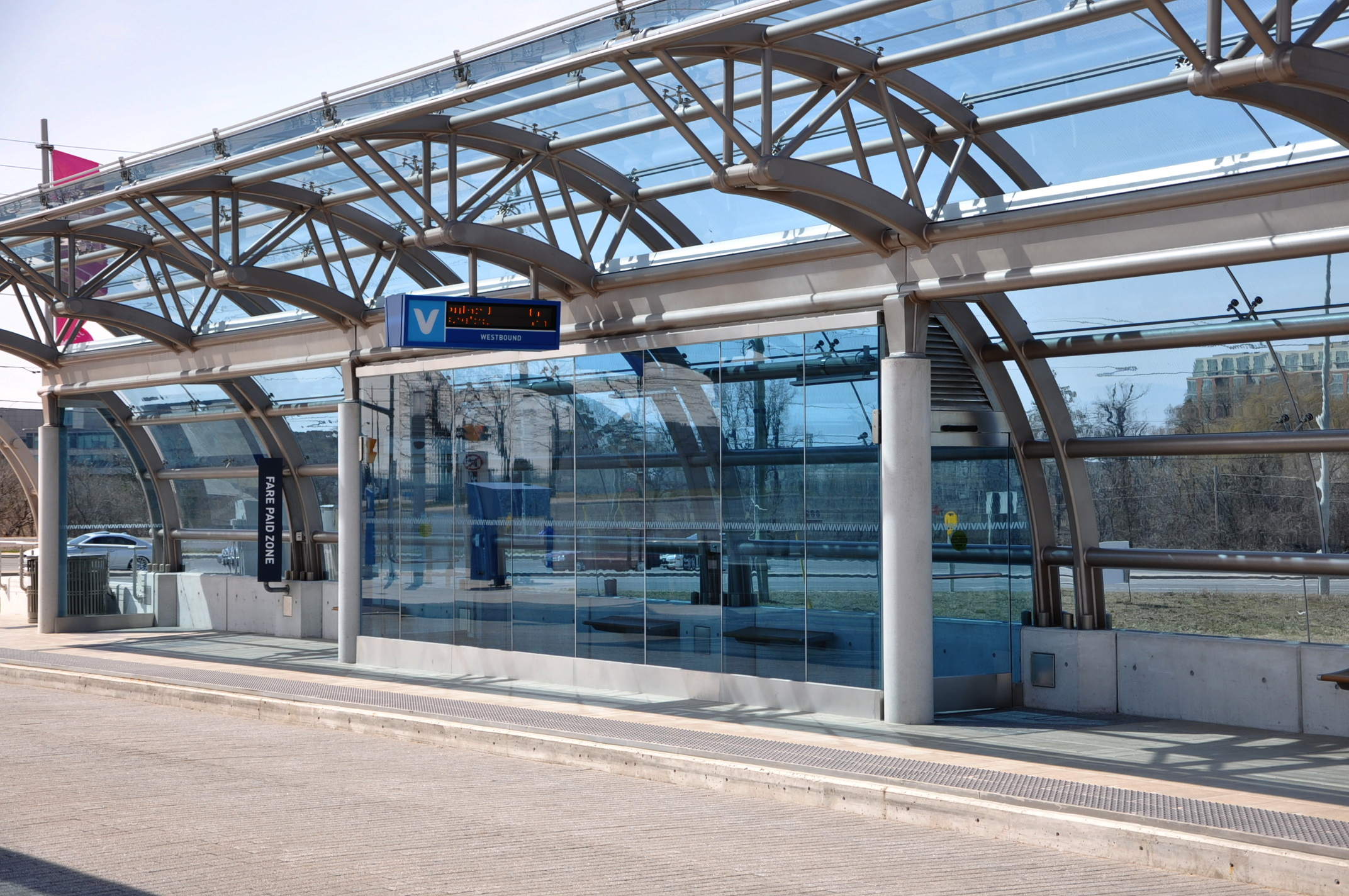 Heated bus shelter at the Warden Viva stop, in Markham, Ontario.